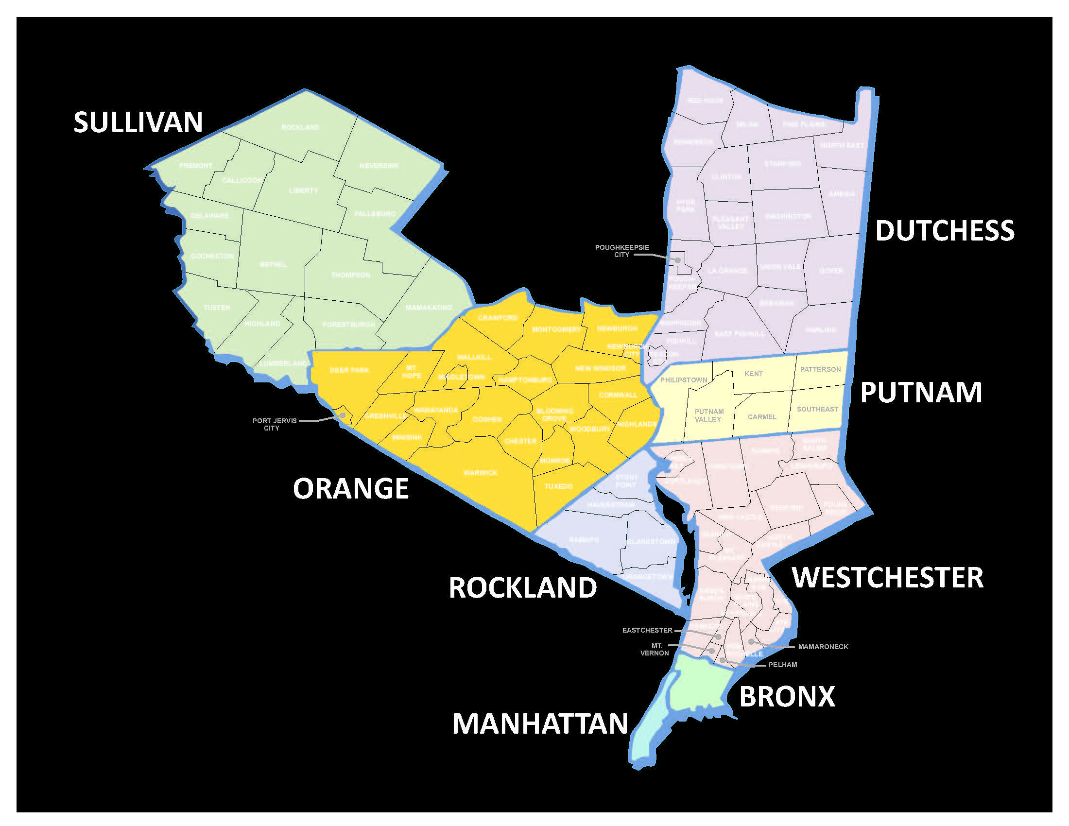 The Southern District of New York encompasses: the boroughs of Manhattan and the Bronx, as well as Dutchess, Orange, Putnam, Rockland, Sullivan, and Westchester Counties.